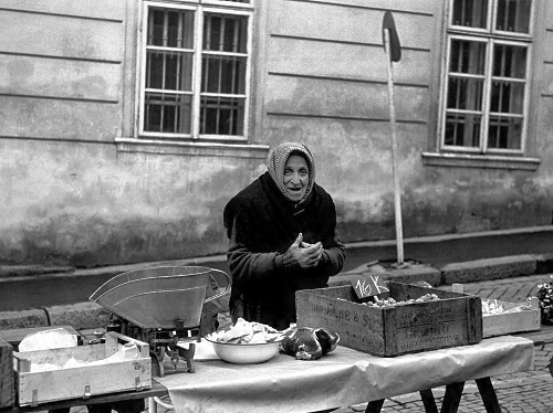 Czechoslovakia, Brno. 60 th. Photo by Jiri Tondl